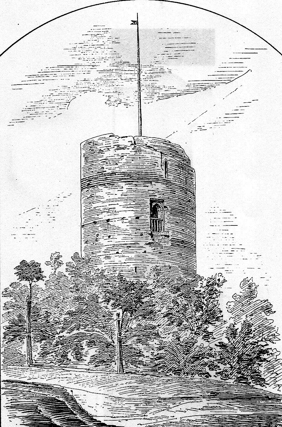 "Klimek", the tower of the Teutonic Knights Castle in Grudziądz. 2nd H. of the 13th. c., damaged 1945